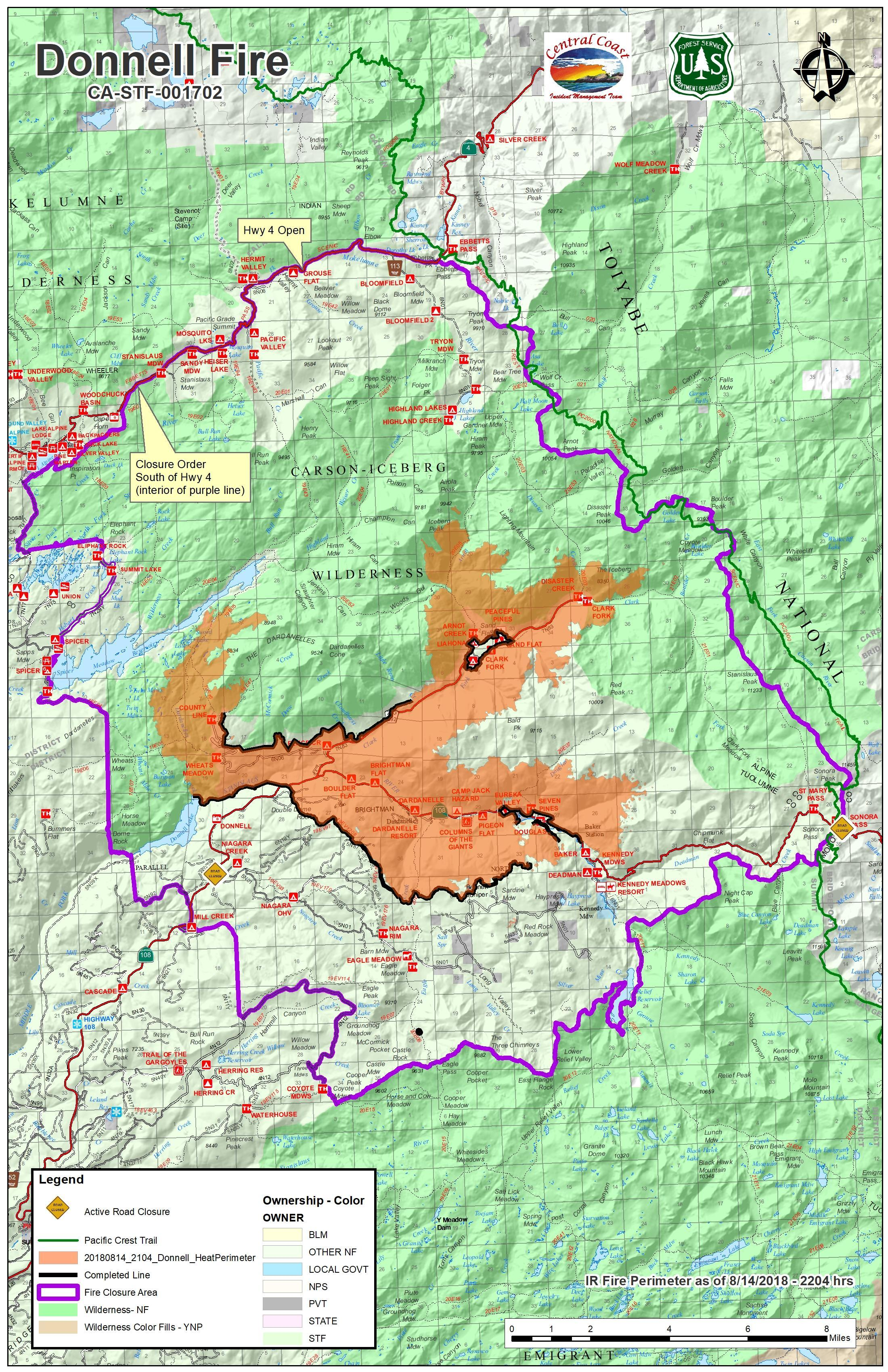 Donnell Fire map, showing closure area, fire location derived from infrared data, and containment lines at 2204 hours on August 14, 2018